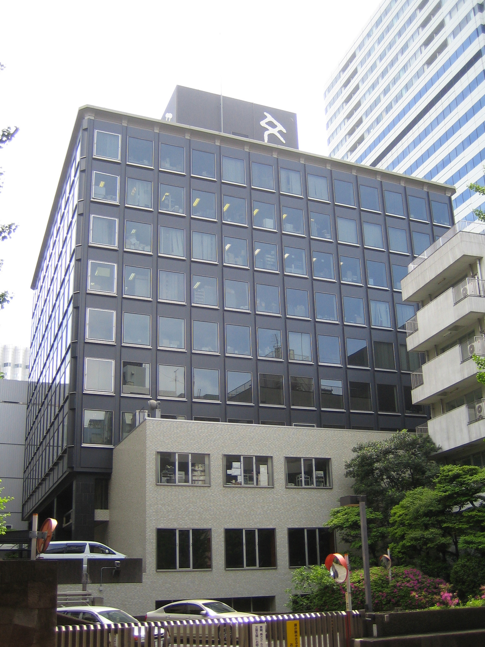 Bungei Shunju (文藝春秋 Bungei Shunjū), the Japanese publisher, in Chiyoda, Tokyo, Japan